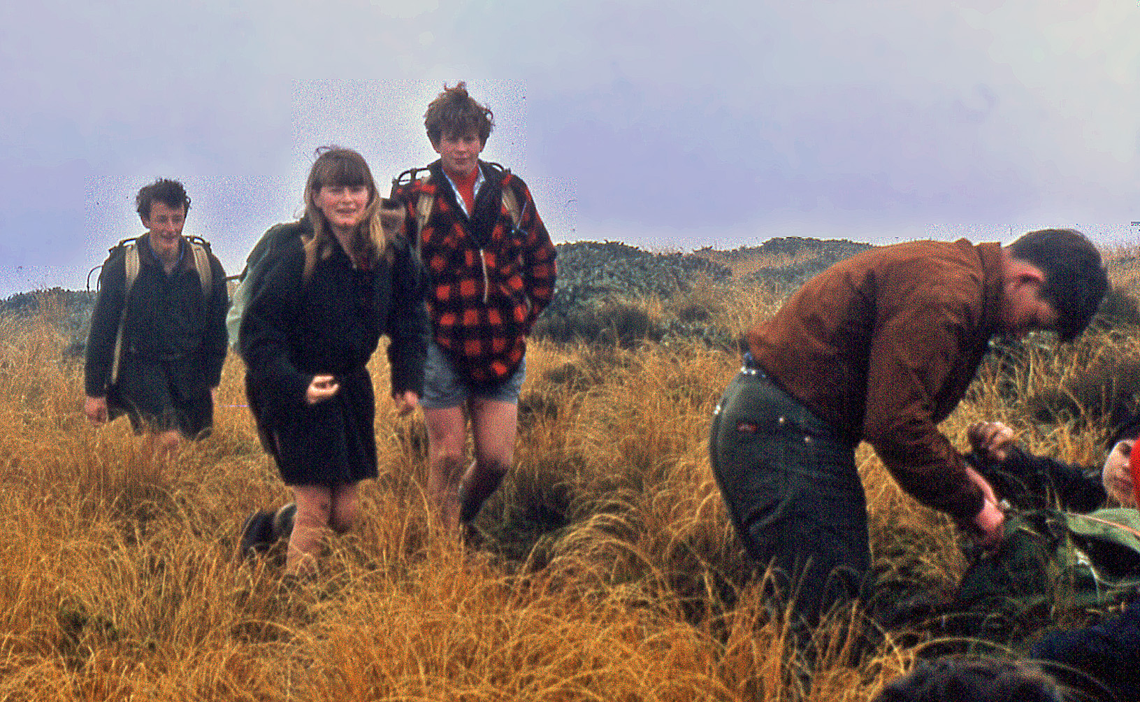 Spotswood College Tramping Club, Pouakai Ranges, Taranaki, New Zealand, 1969